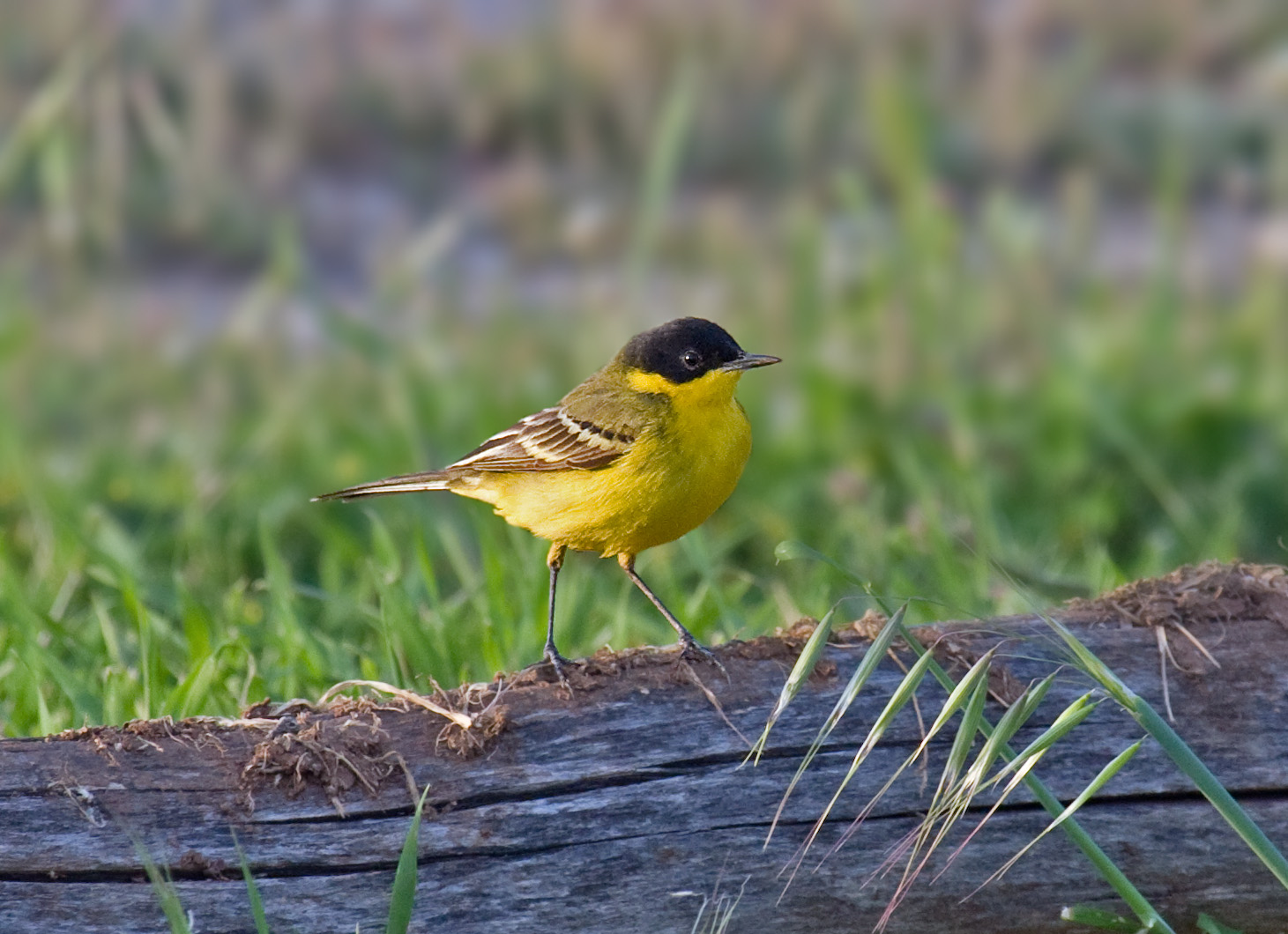 Black-headed Wagtail